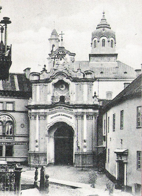 Monastery of the Holy Trinity, Vilnius